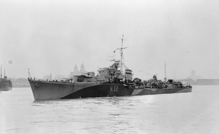 Photograph of British destroyer HMS Rapid (H32) underway on the River Mersey.